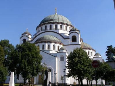 St. Sava Temple (under construction) in Belgrade (Serbia)